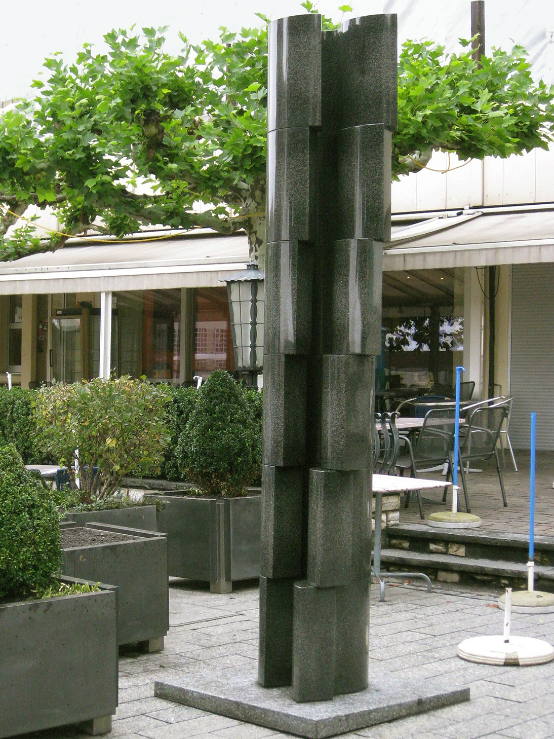 Gottfried Honegger, Monoform 29, 1991, Liechtenstein, Vaduz, Städtle